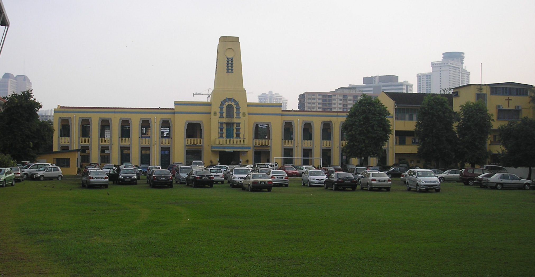 The old Art Deco/International-styled school building of the Wesley Methodist School, as seen from Lorong Timur (East Alley) in Sentul, Kuala Lumpur, Malaysia.